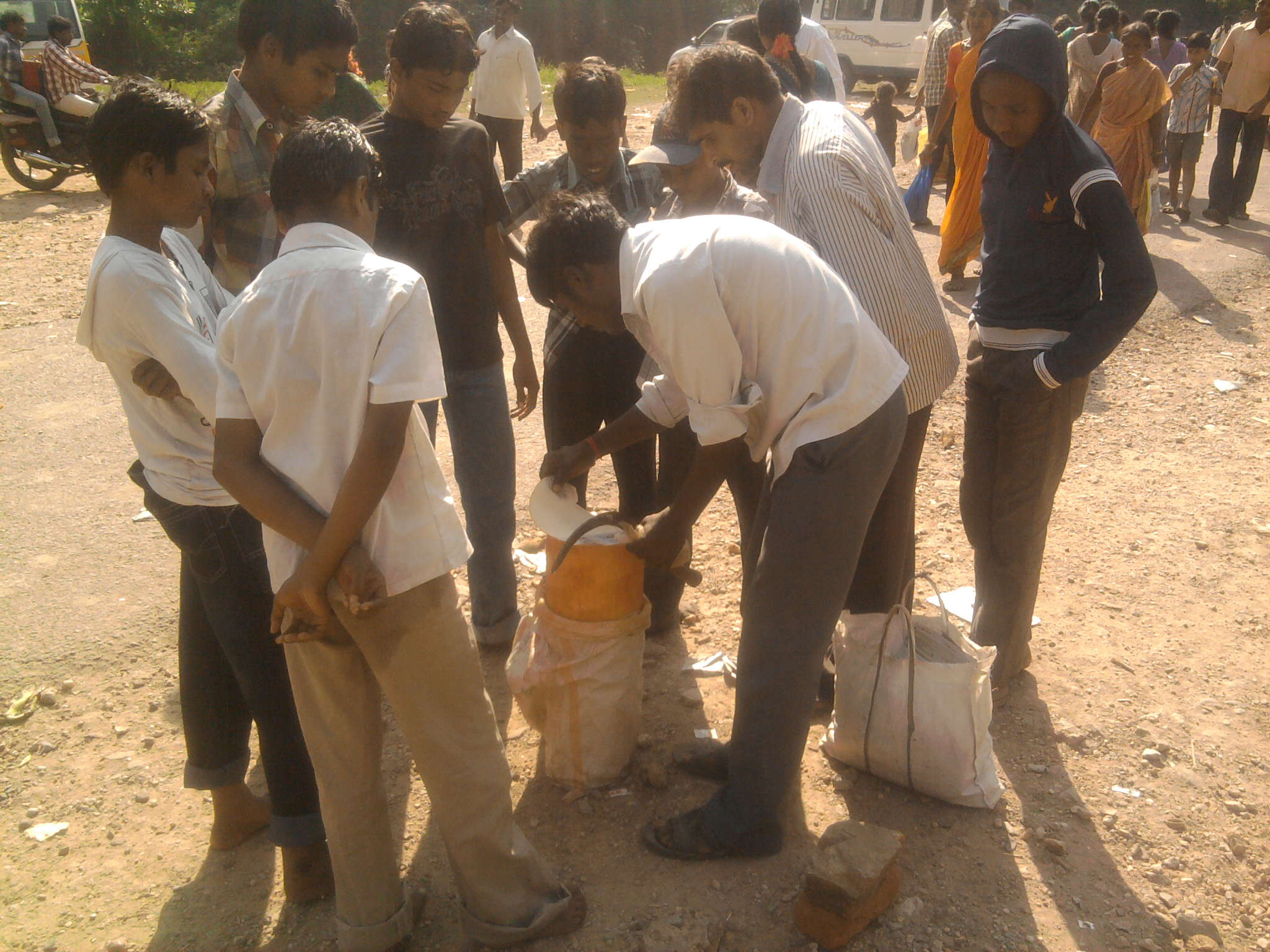 Bhoochakra gadda (Telugu name) Botanical name : Maerua oblongifolia - root selling at Bhairavakona, Prakasam District, A.P. India.